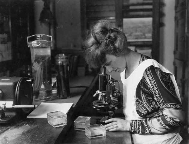 Ruth Colvin Starrett McGuire (1893-1950) was a plant pathologist known for her work on sugar cane diseases. She attended Indiana University (A.B., 1914; M.A., 1916) and worked at the U.S. Department of Agriculture's Bureau of Plant Industry from 1919 until at least 1948.